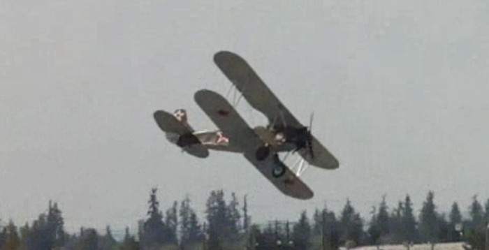 Russian Polikarpov U-2/Po - Paine Field - USA (2011) - In flight 3.